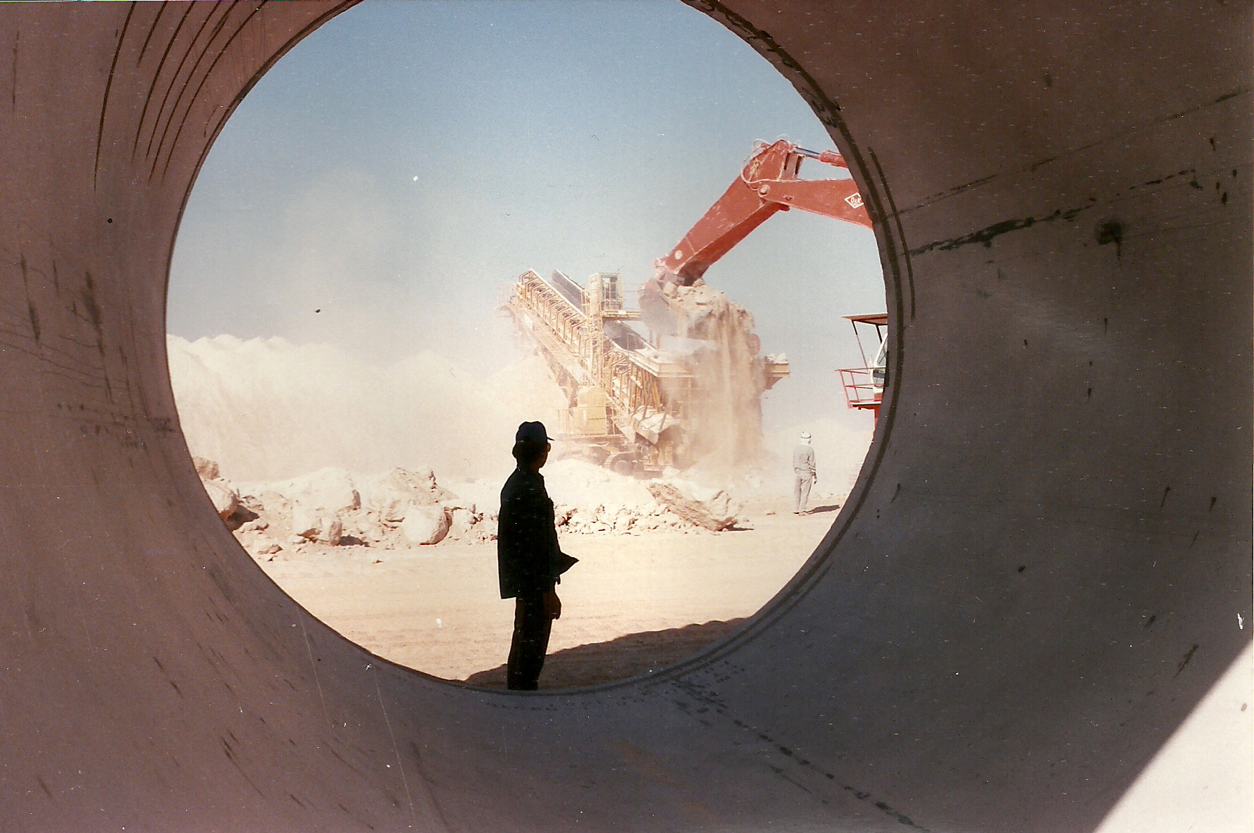 Trench digging for water pipeline Libya